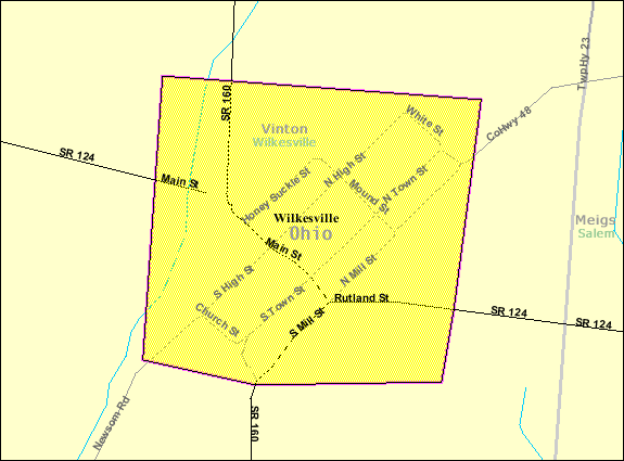 Map of Wilkesville, a village in Vinton County, Ohio, United States, with its boundaries at the time of the 2000 census.